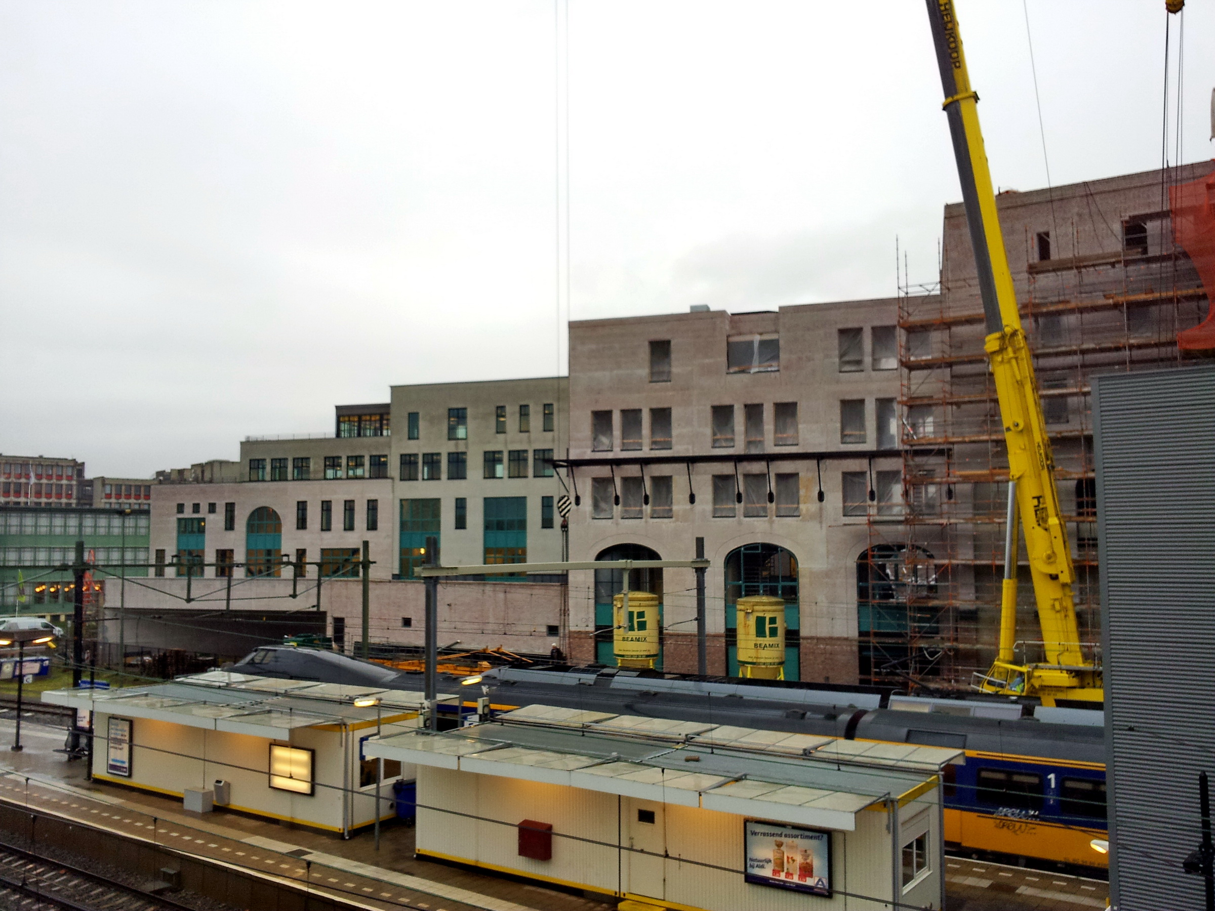 Construction site Maankwartier around the railway station in Heerlen, Limburg, the Netherlands.